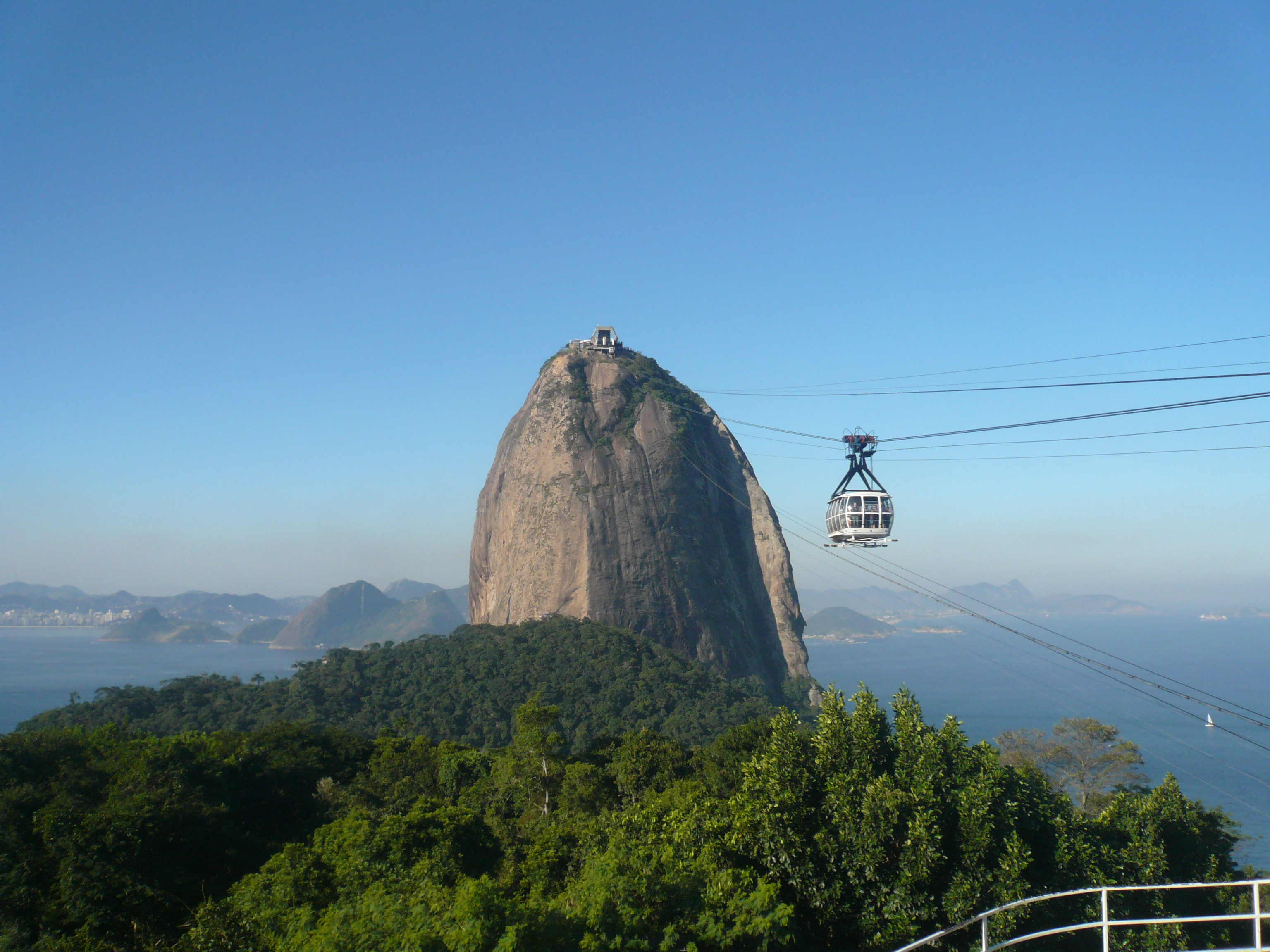 Sugarloaf moutain in Rio de Janeiro, Brazil.